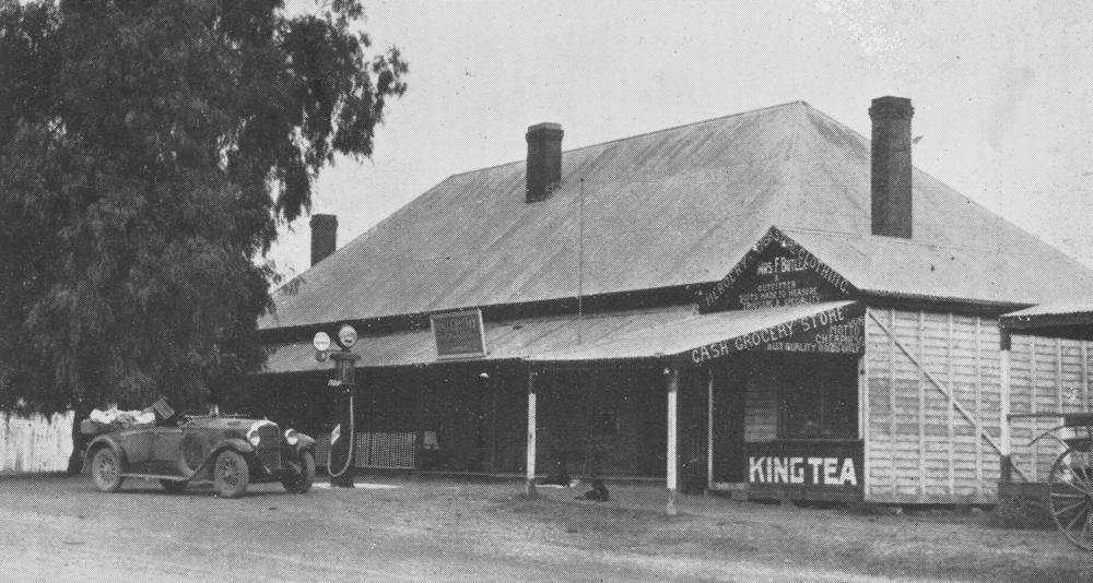 Royal Hotel, Leyburn, ca. 1933. A car parked beside the petrol bowser in front of the Royal Hotel and Cash's grocery store at Leyburn, around 1933. Caption: The Royal Hotel - Leyburn's ancient hostelry.